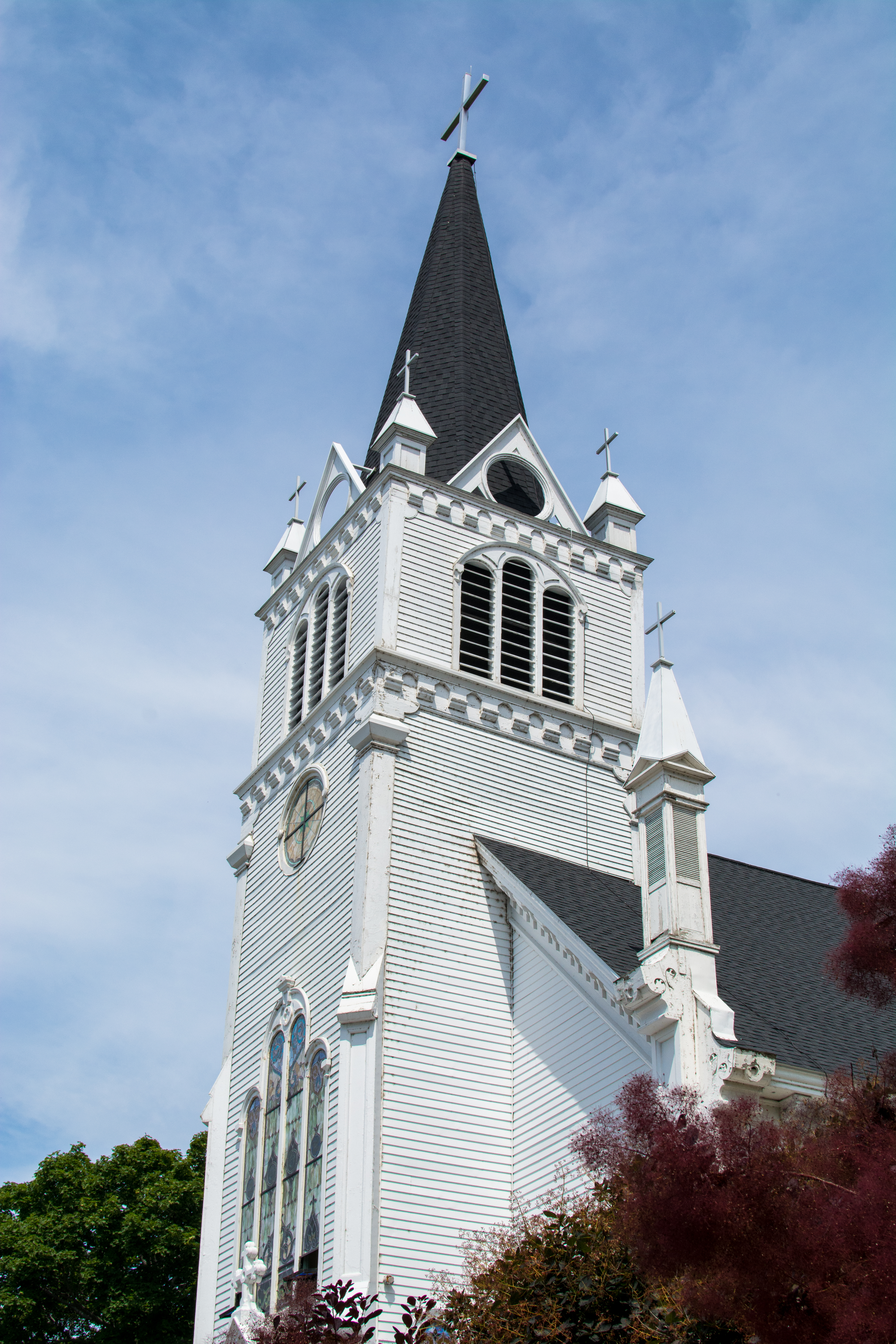 Ste. Anne's Catholic Church on Mackinac Island's south shore, just east of the main town.